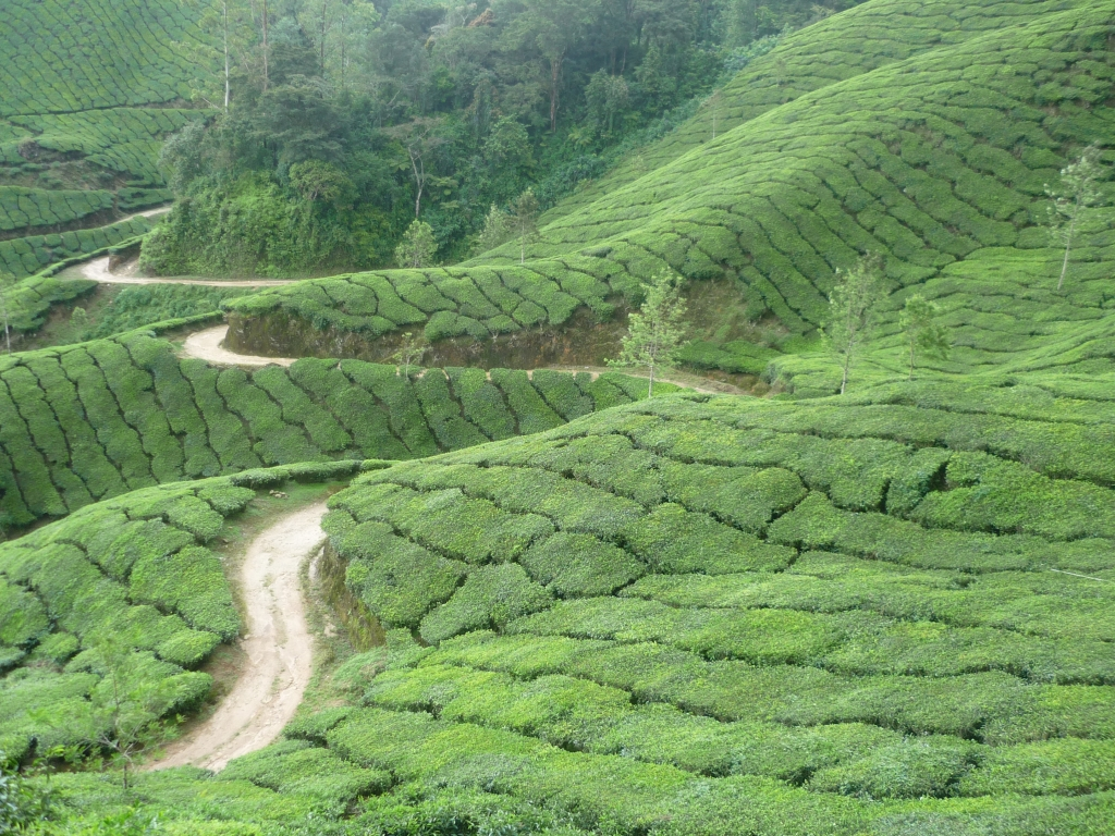 Tea plantation near Munnar, Kerala, India.